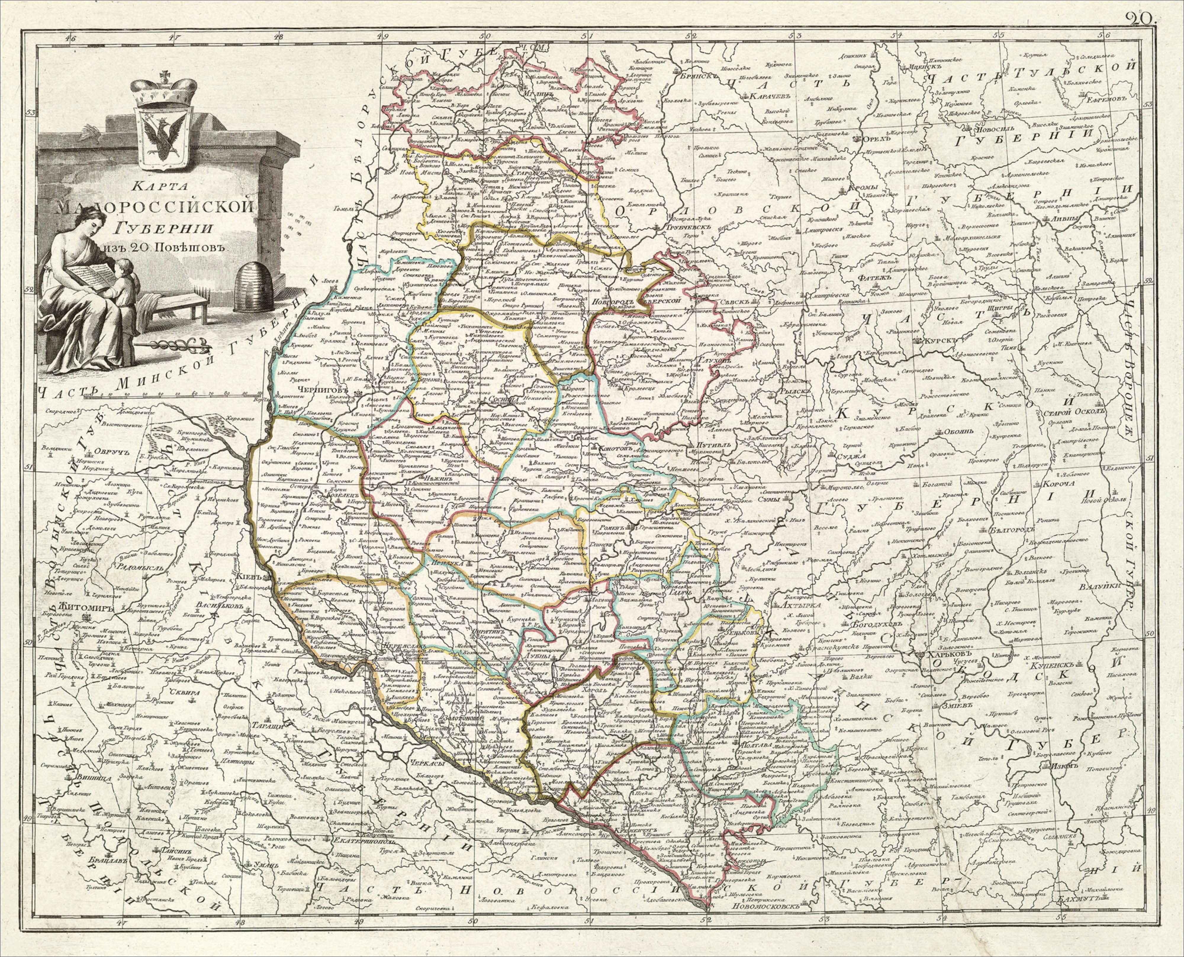 Atlas of Russian Empire. 1800 year. List 20. Malorossiyskaya Province from 20 powiats